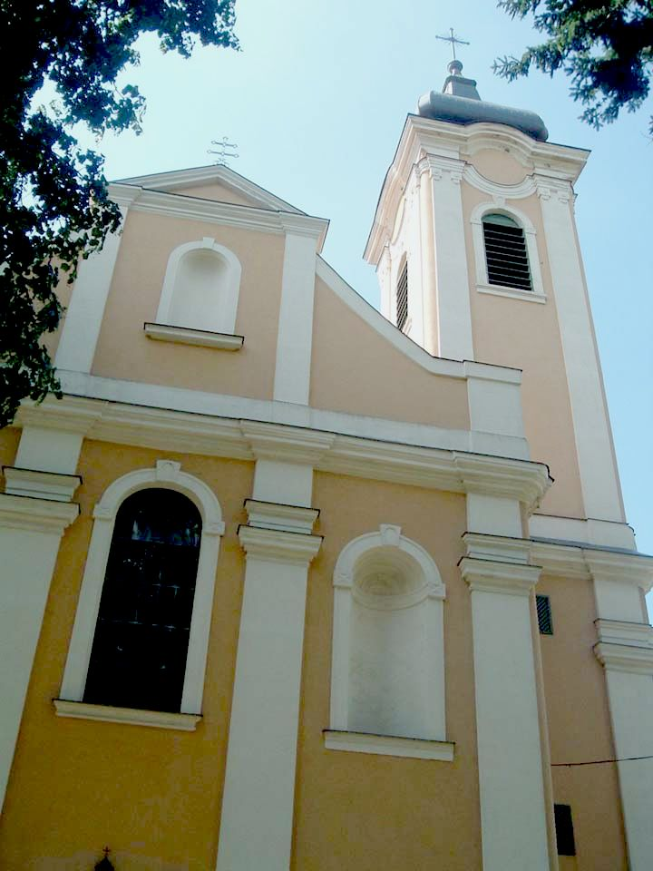 Church of Bakonybél, Hungary. Szent Mauríciusz római katolikus templom This is a photo of a monument in Hungary. Identifier: 9606